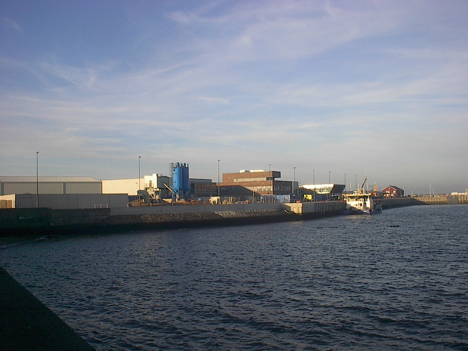 New buildings in the harbour of Heligoland, mainly wind-energy compagnies